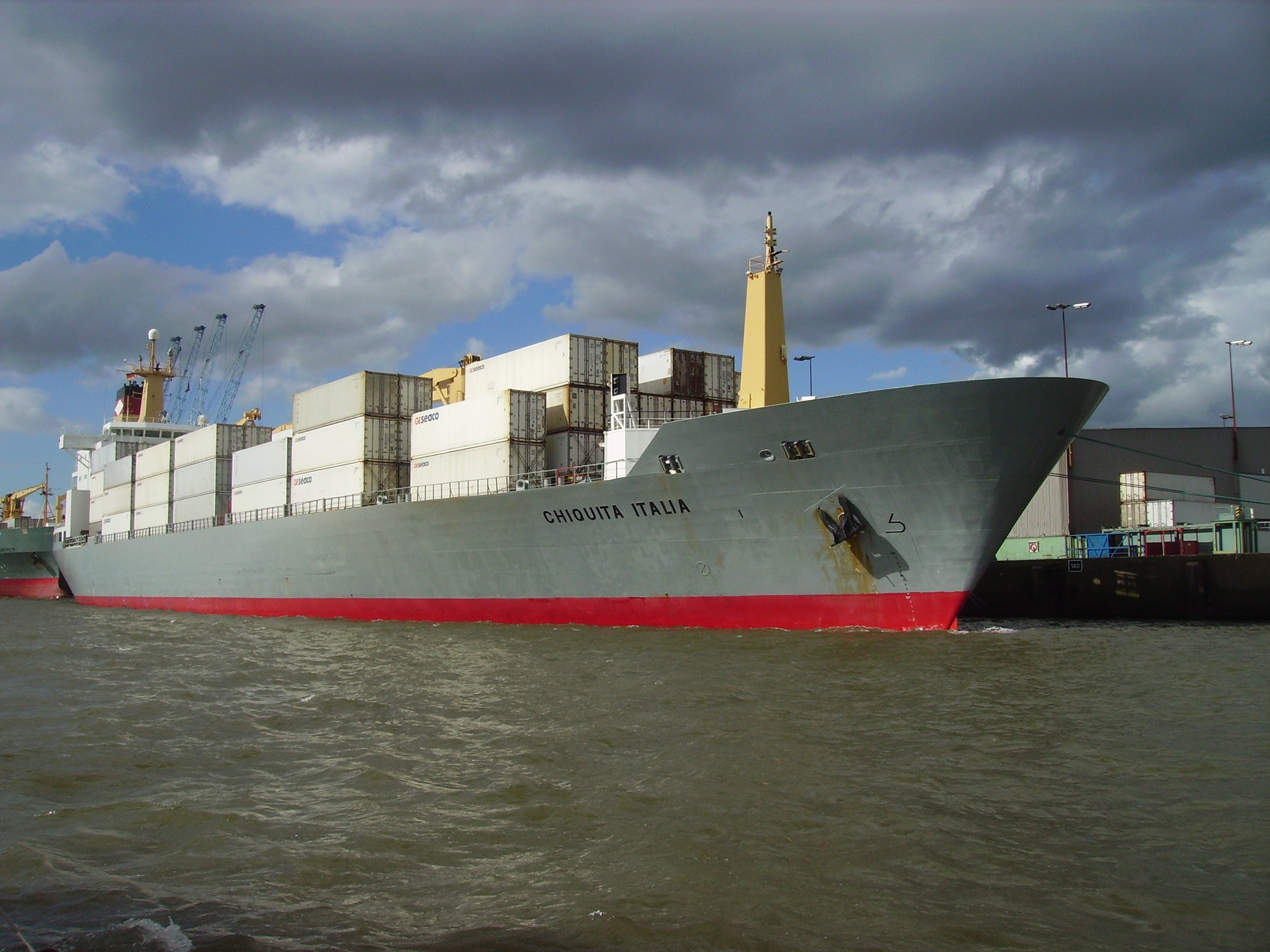 The reefer ship Chiquita Italia. IMO number: 9030137